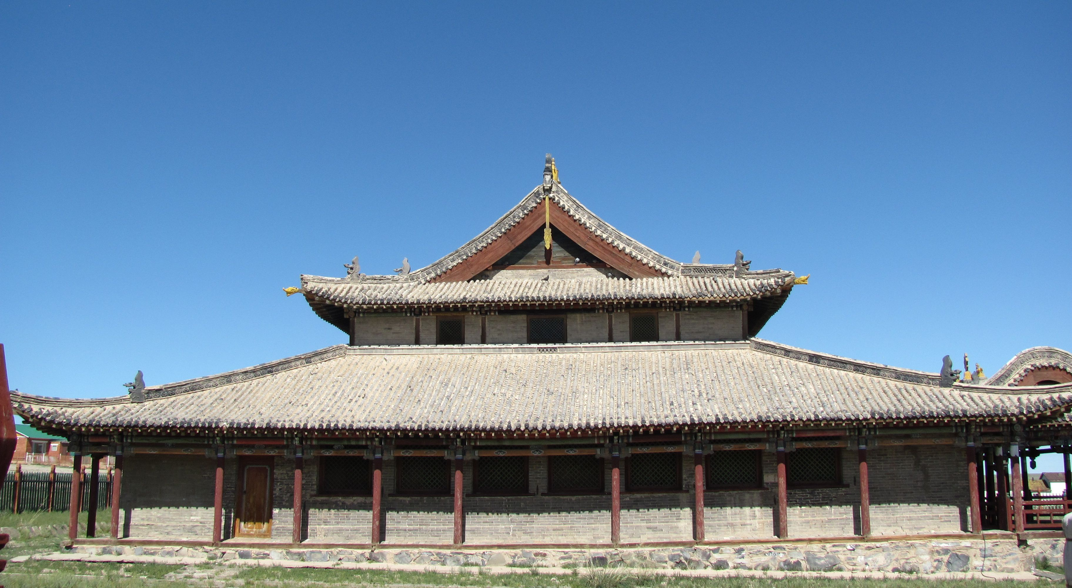 Temple of Gimpil Darjaalan Monastery in Erdenedalai, Dundgov Aimag, Mongolia.